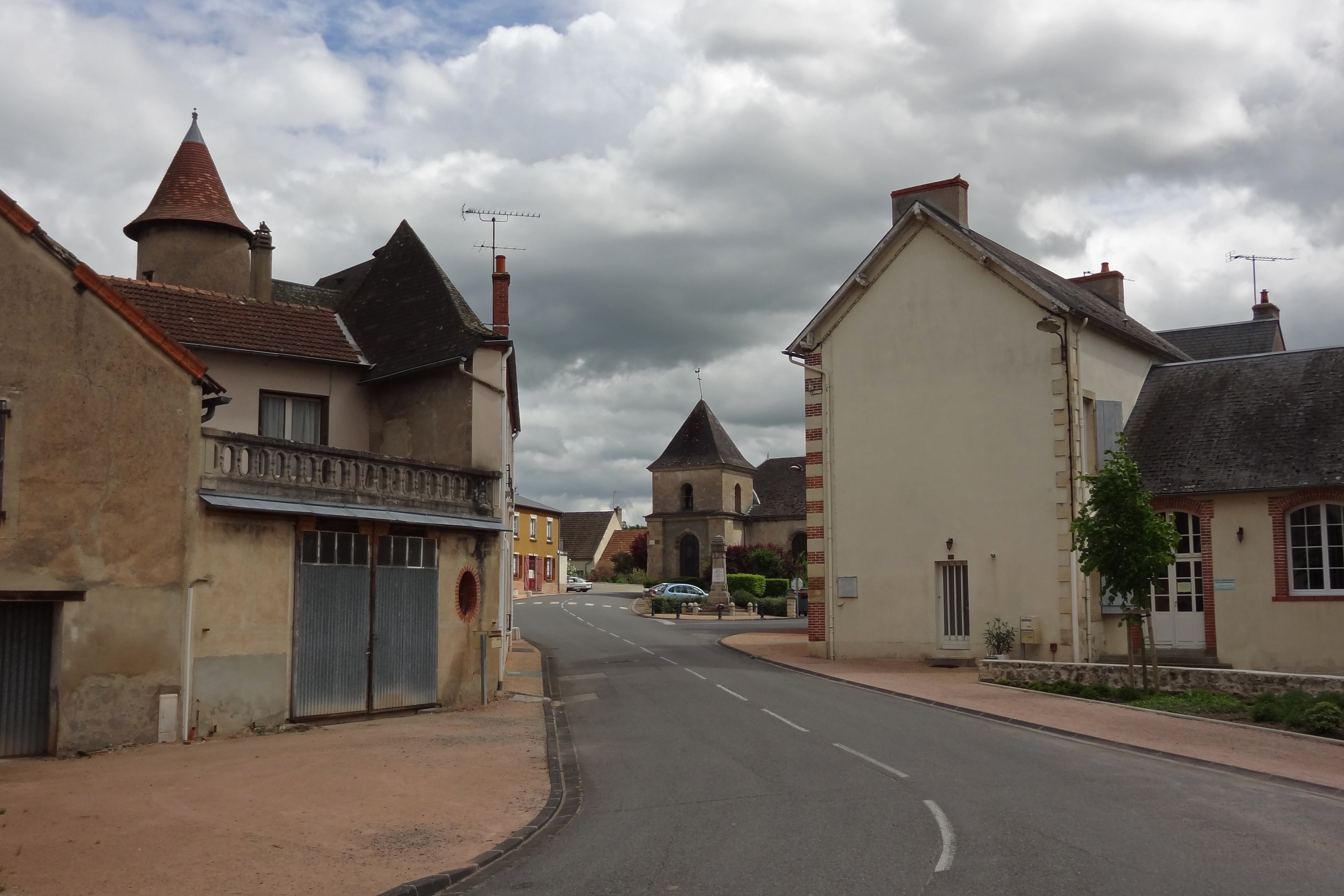 View of Trézelles, Allier, France